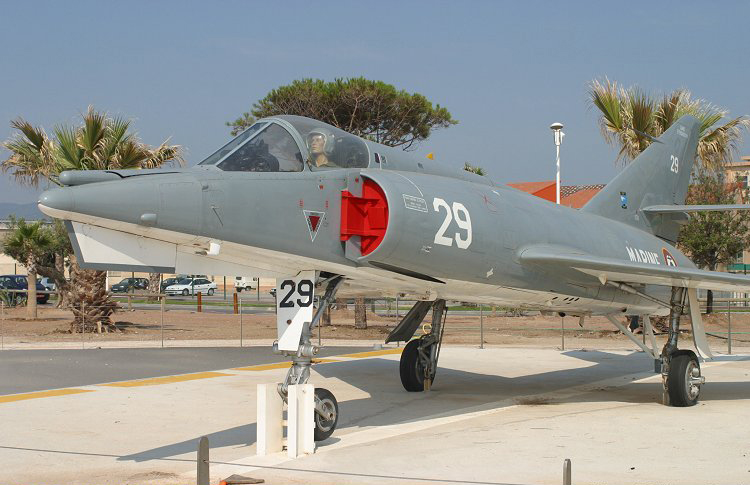 A Dassault Étendard IVM on display at Fréjus Saint Raphael, France.